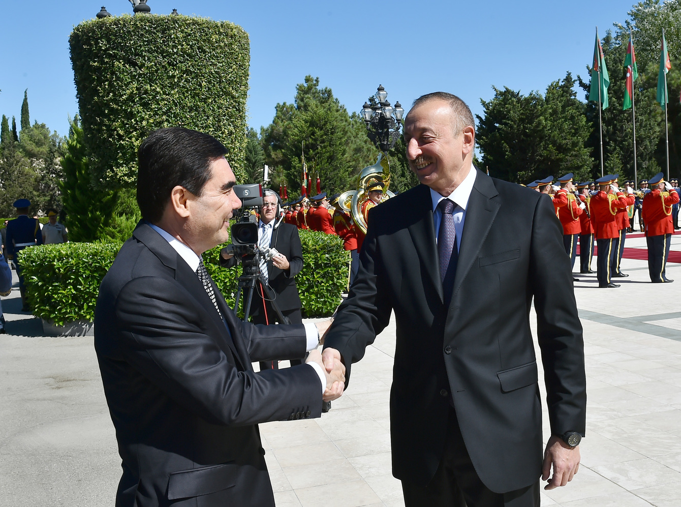 Official welcome ceremony was held for President of Turkmenistan Gurbanguly Berdimuhamedow